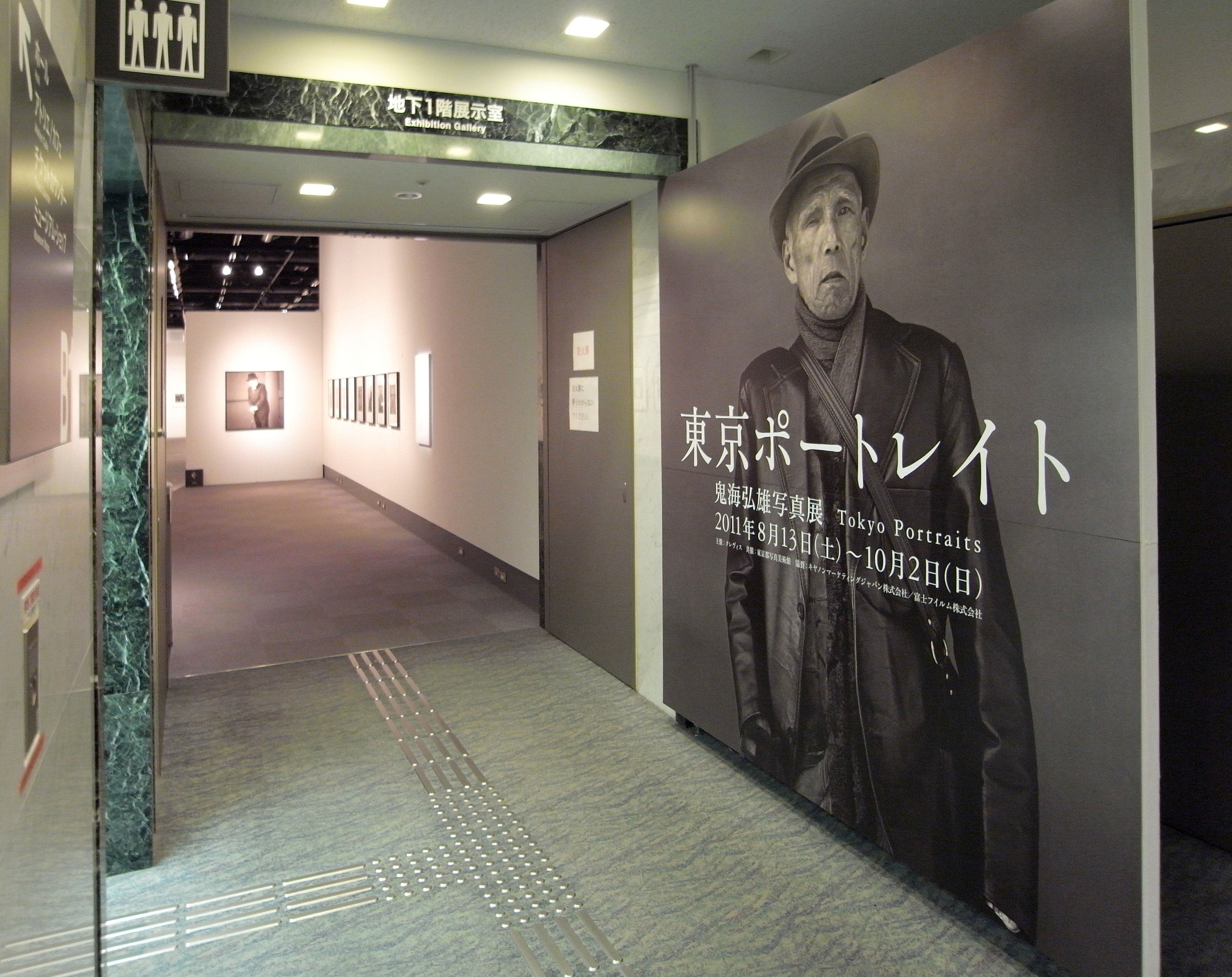 Entrance to the exhibition "Tokyo Portraits" (東京ポートレイト) by Hiroh Kikai (鬼海弘雄) at the Tokyo Metropolitan Museum of Photography (東京都写真美術館), 12 August 2011